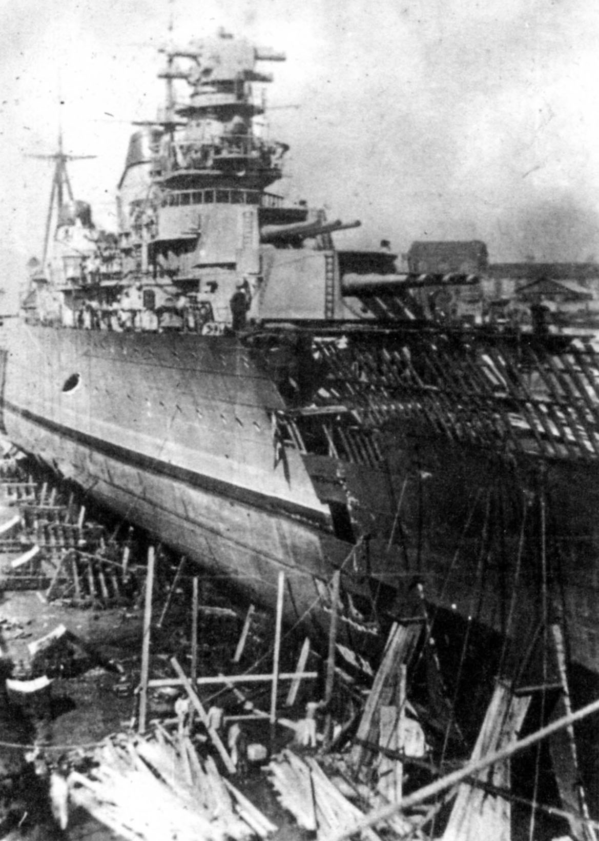 The Soviet cruiser Maksim Gor'kiy, 1941-1942.